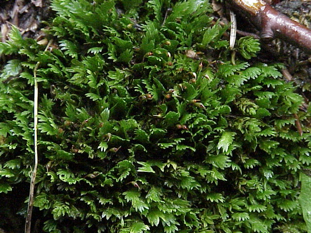 Species: Fissidens cristatus Family: ' Image No. 1